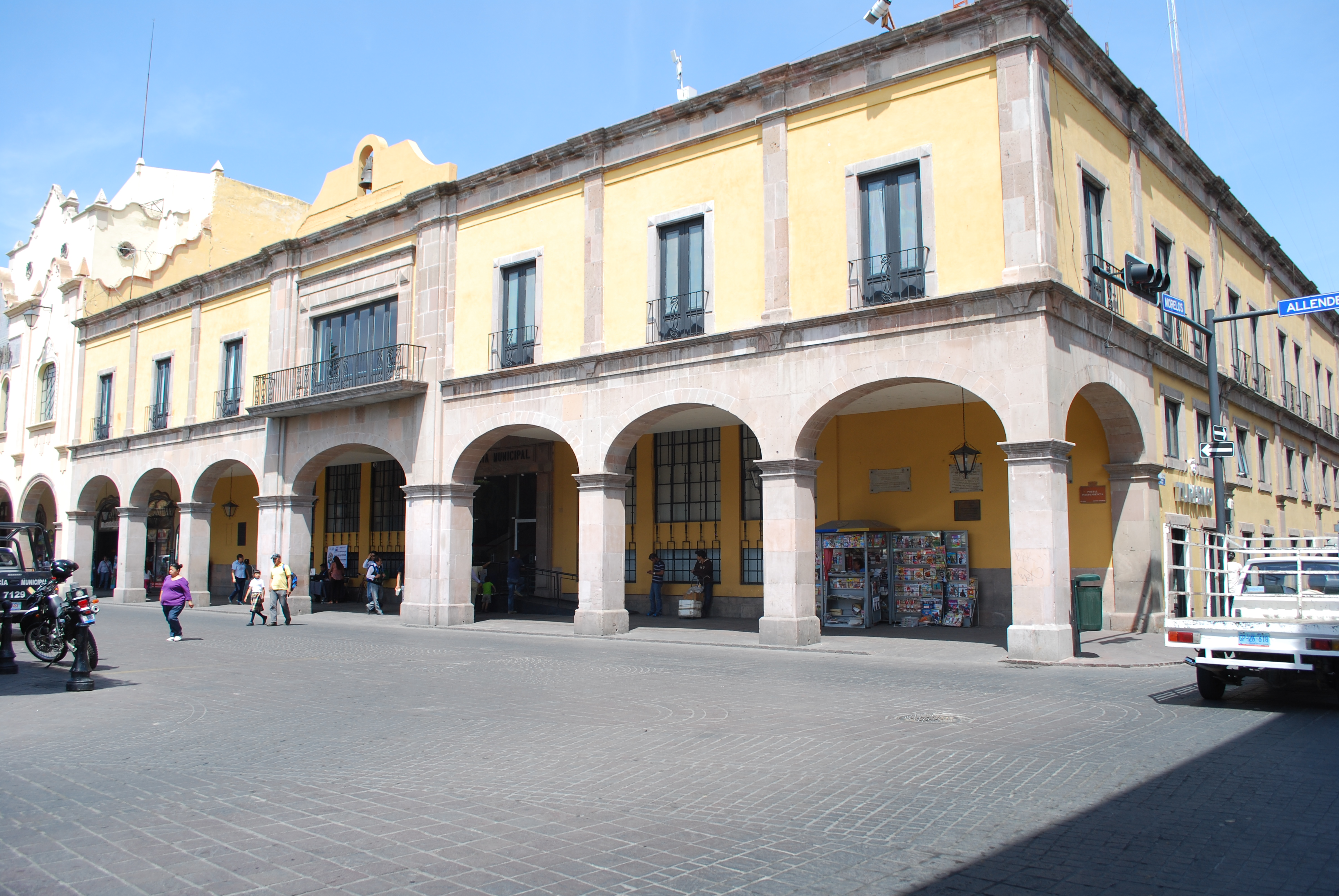 Municipal palace of Celaya, Guanajuato